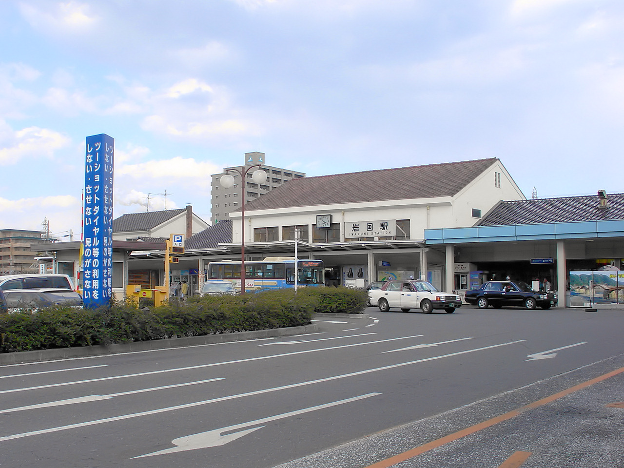 West Japan Railway, Iwakuni Station.(Iwakuni City, Yamaguchi Prefecture, Japan)